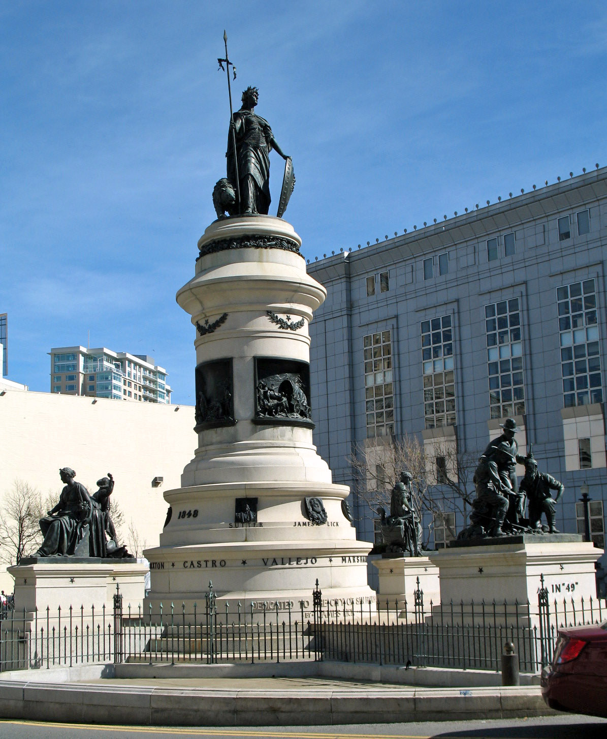 National Register of Historic Places in San Francisco, California. The James Lick/Pioneer Memorial, located between the San Francisco Main Library and the Asian Art Museum, San Francisco, California, USA. Photographed 2008-03-02 by Mike Hofmann from northwest of the sculpture. The monument is among the sites in the San Francisco Civic Center Historic District.